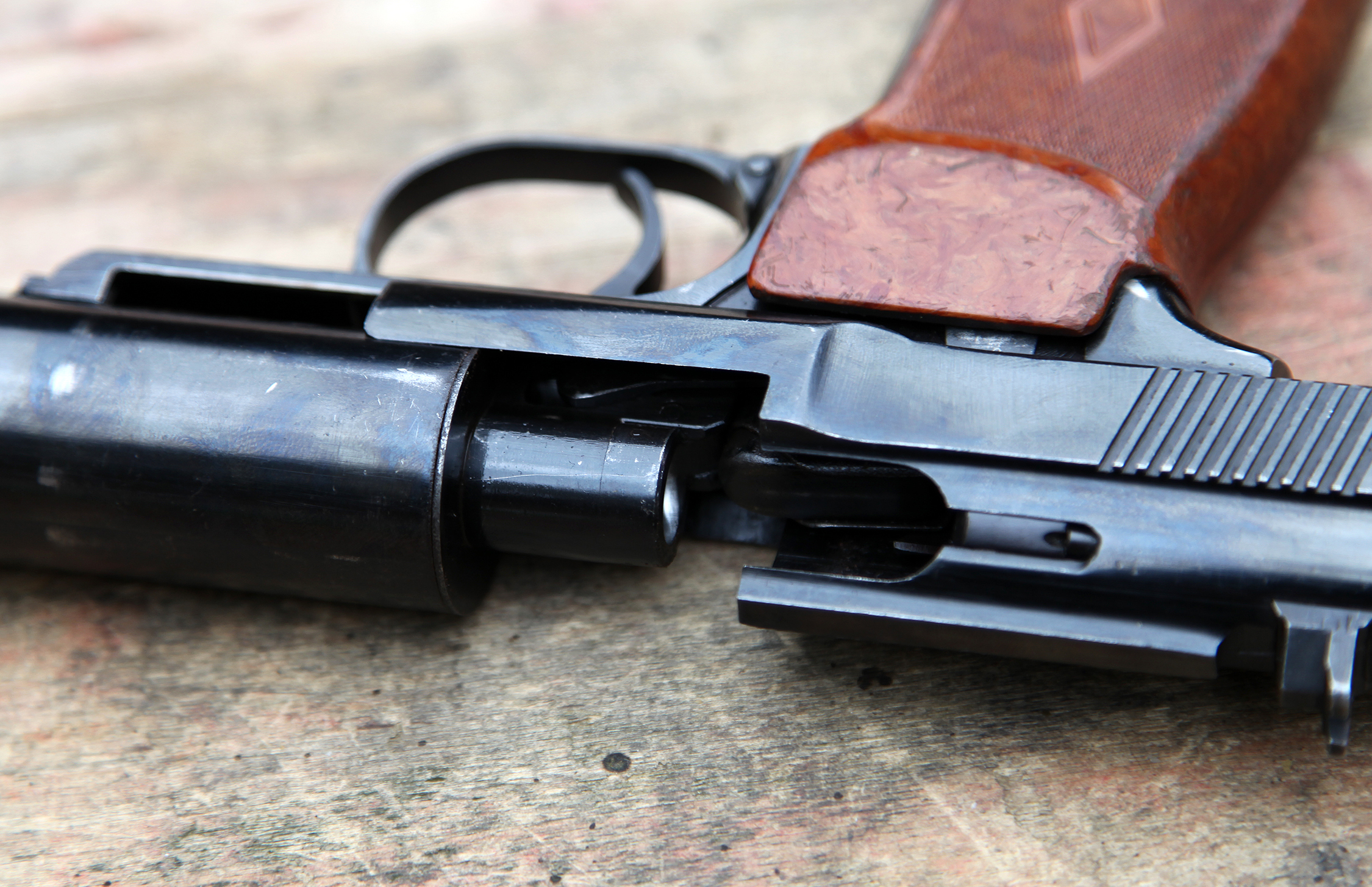 Walkaround of silent pistol 6P9 PB, based on PM pistol.